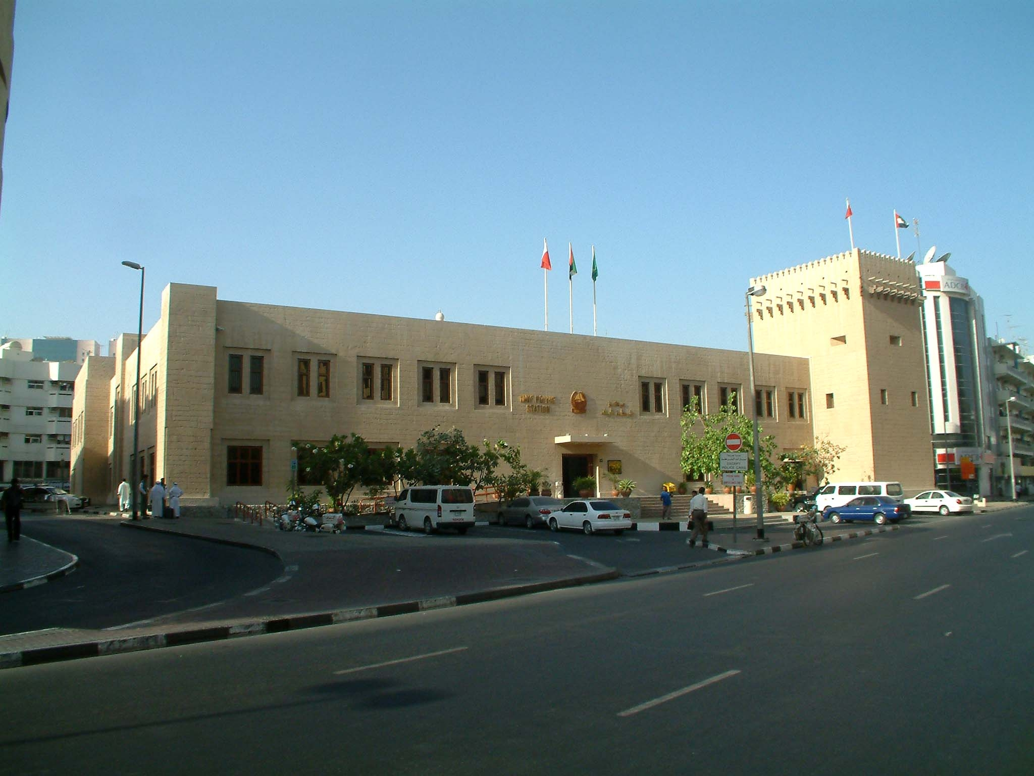 Museum venue next to Naif police station building